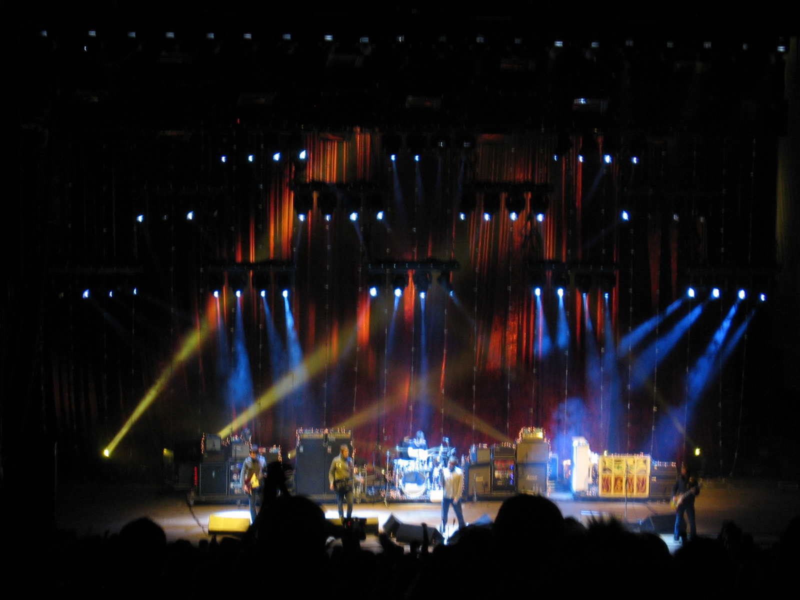 Oasis Concert.